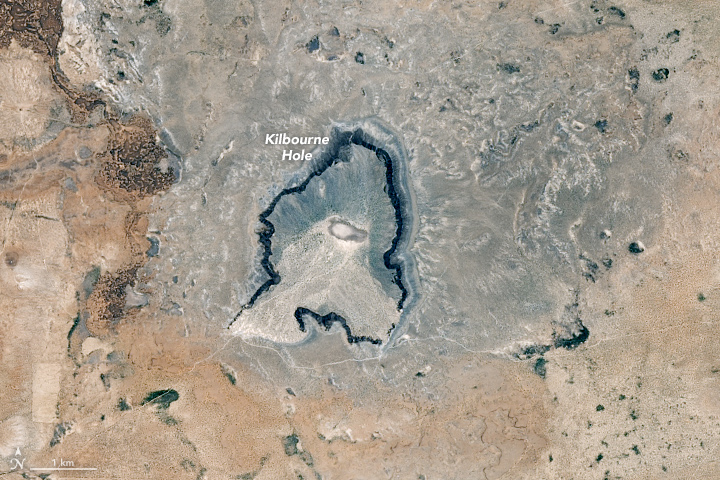 Kilbourne Hole is a maar crater and one of Potrillo’s most distinctive features. It was created about 24,000 years ago by the explosive interaction of hot magma and an aquifer. Magma rising from deep within the Earth heated the underground water, producing steam. Pressure built up, culminating in an explosion that blew out an irregularly shaped hole more than a mile across, 1.7 miles long, and hundreds of feet deep. The blast scattered material far and wide and exposed layers of rock that preserved the history of Kilbourne’s bygone water. Among geologists, Kilbourne is also known for its xenoliths—rocks that harbor bits of crust or mantle material. Several kinds of xenoliths are found in and around Kilbourne, especially those containing olivine, the greenish mineral of the gemstone peridot. The presence of olivine can indicate material from the mantle, and olivine-rich rocks were among those brought back from the Moon by the Apollo missions.